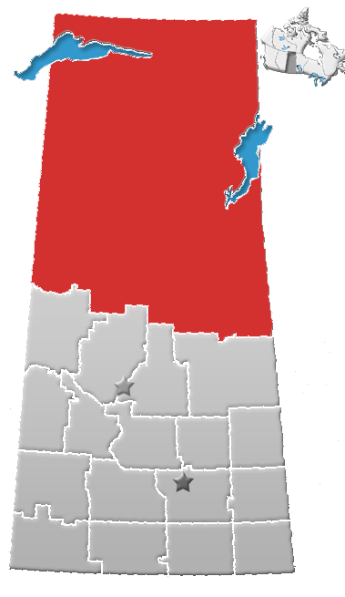 Saskatchewan census area No. 18